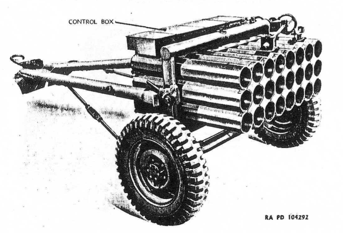 Illustration of the T66 4.5-Inch Multiple Rocket Launcher